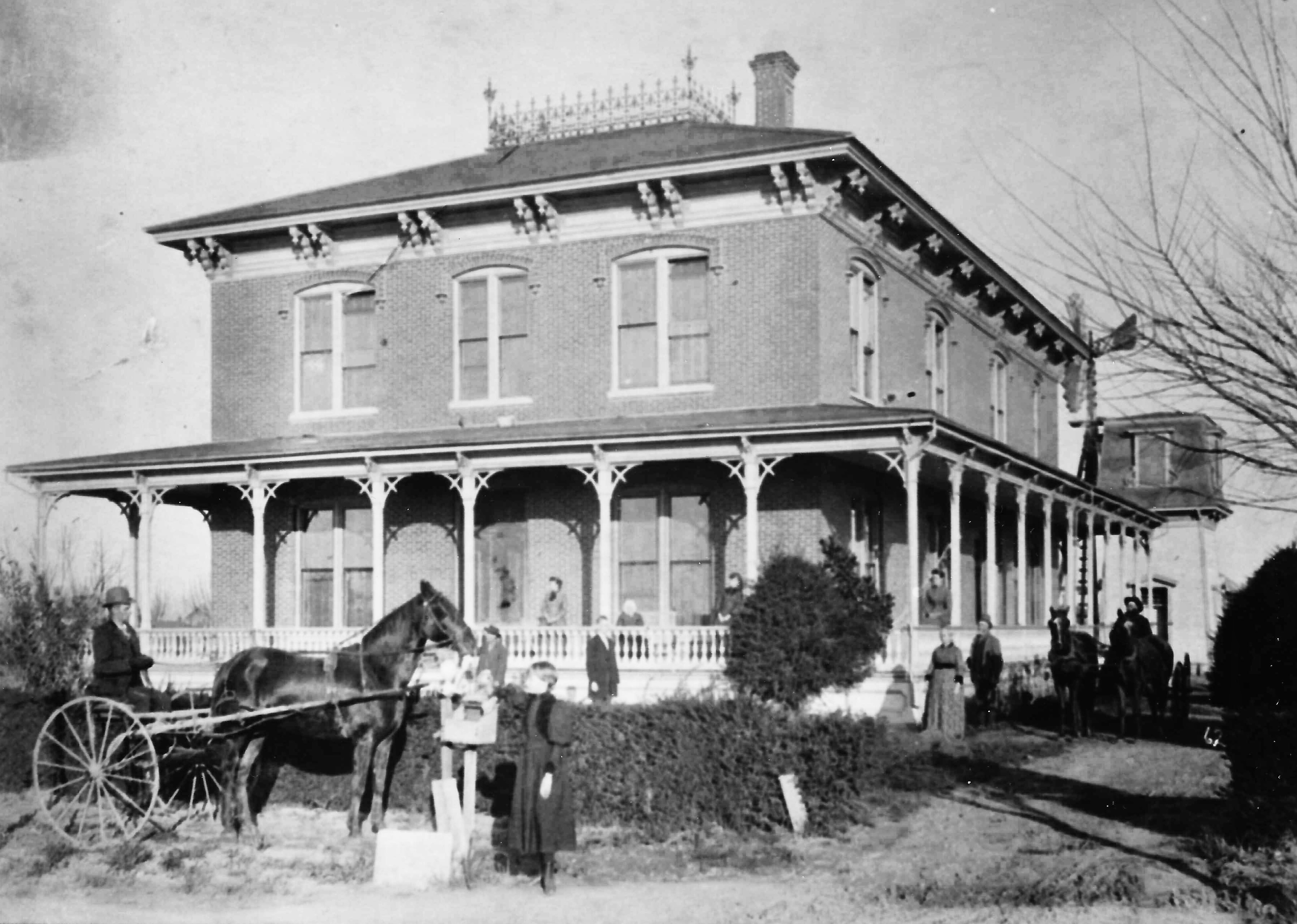 This is a picture of William Helm house with family wagons, animals, and Helm family. Located on Fresno Street. Now site of Fresno Com. Hospital.